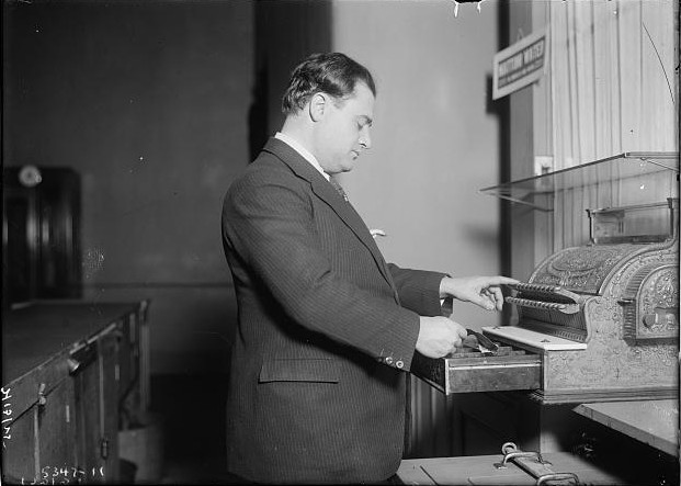 Beniamino Gigli (1890 - 1957), Italian singer, operatic tenor, with cash register